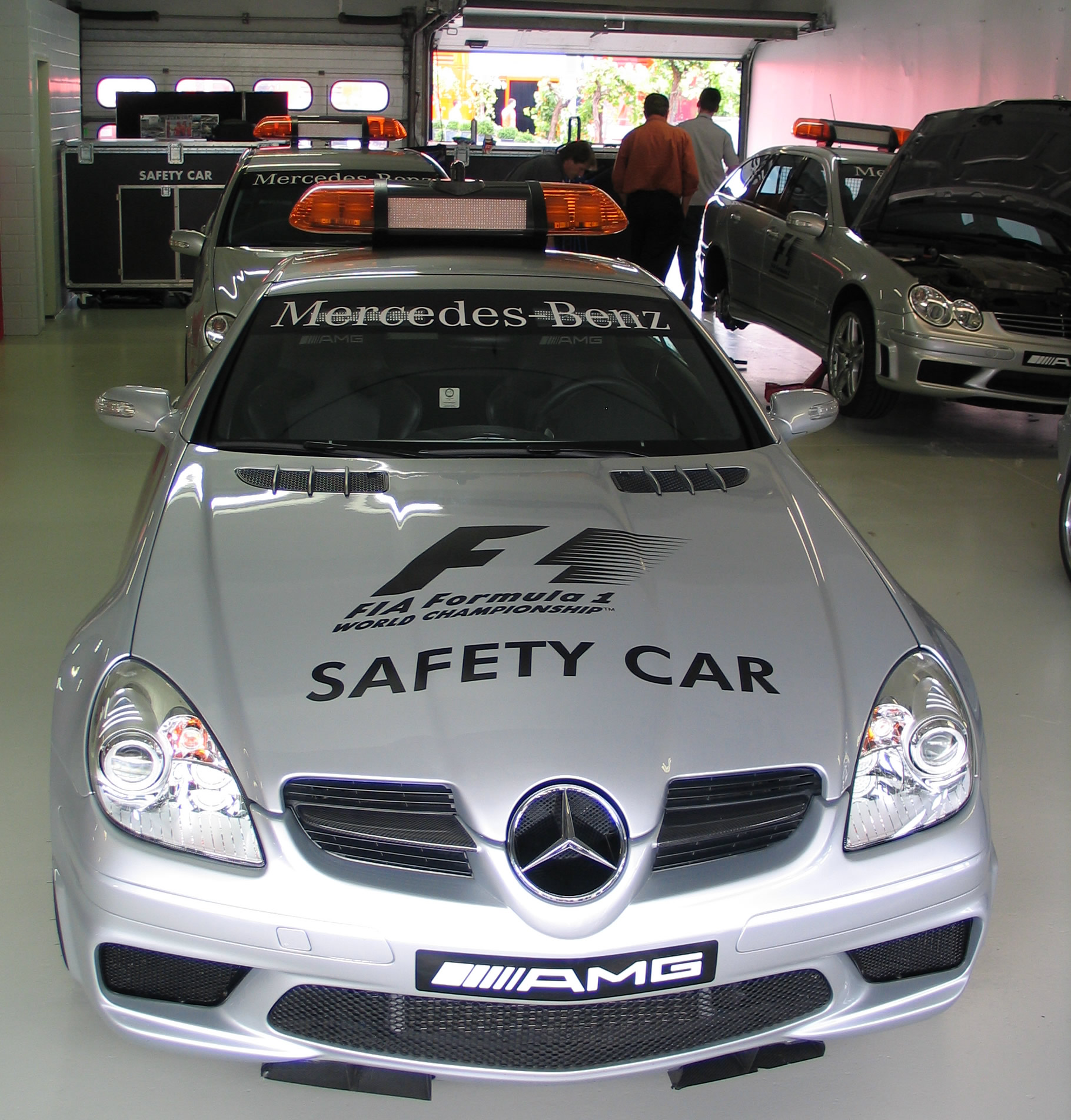 Safety Car Hockenheimring